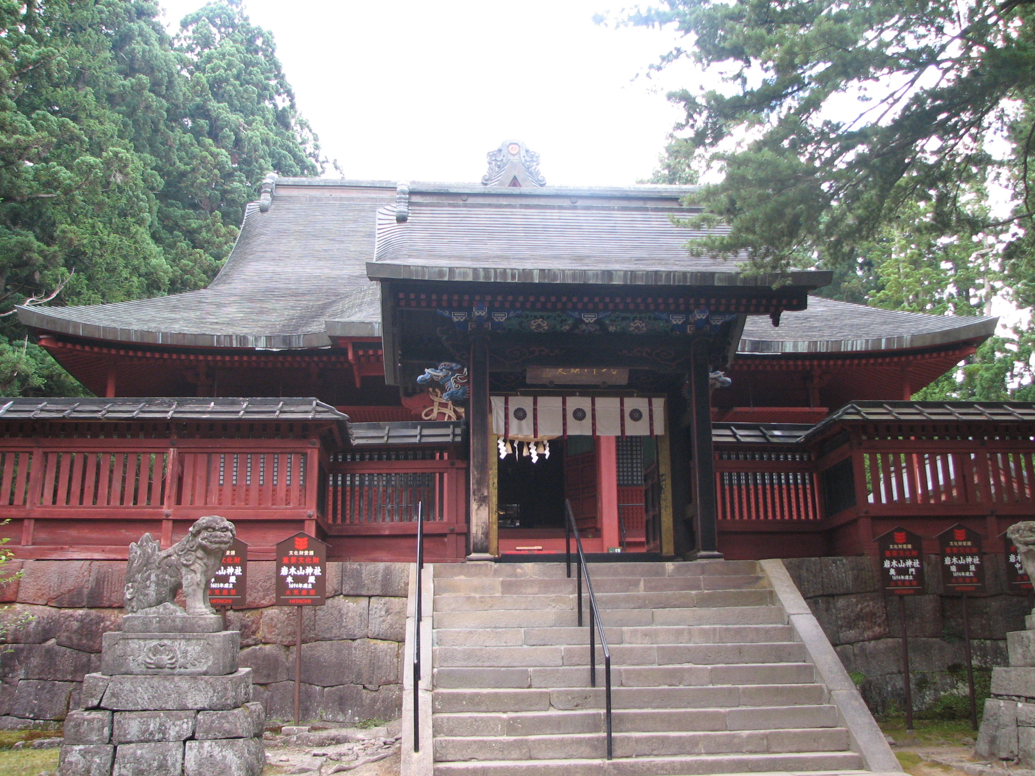 the haiden of Iwakiyama Shrine, Hirosaki, Aomori, Japan 岩木山神社拝殿（青森県弘前市）